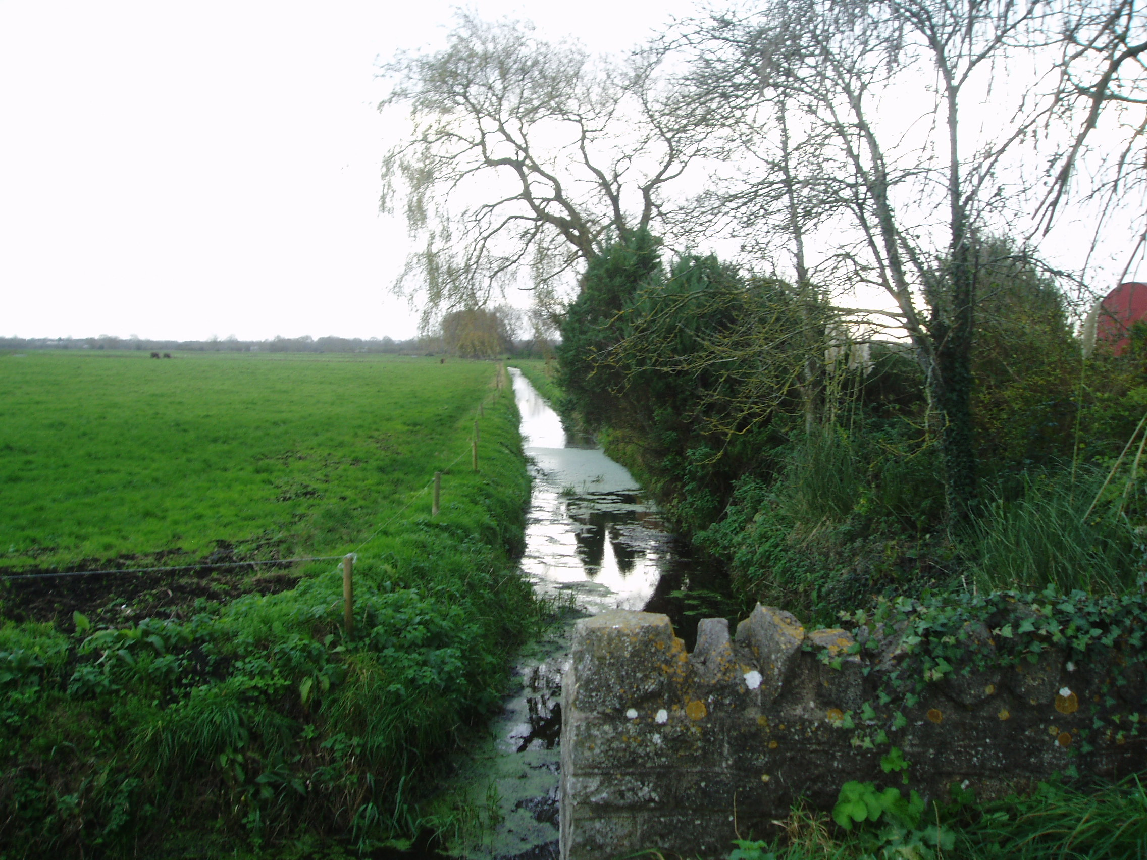 The site of the lock on Galton's Canal in Somerset England